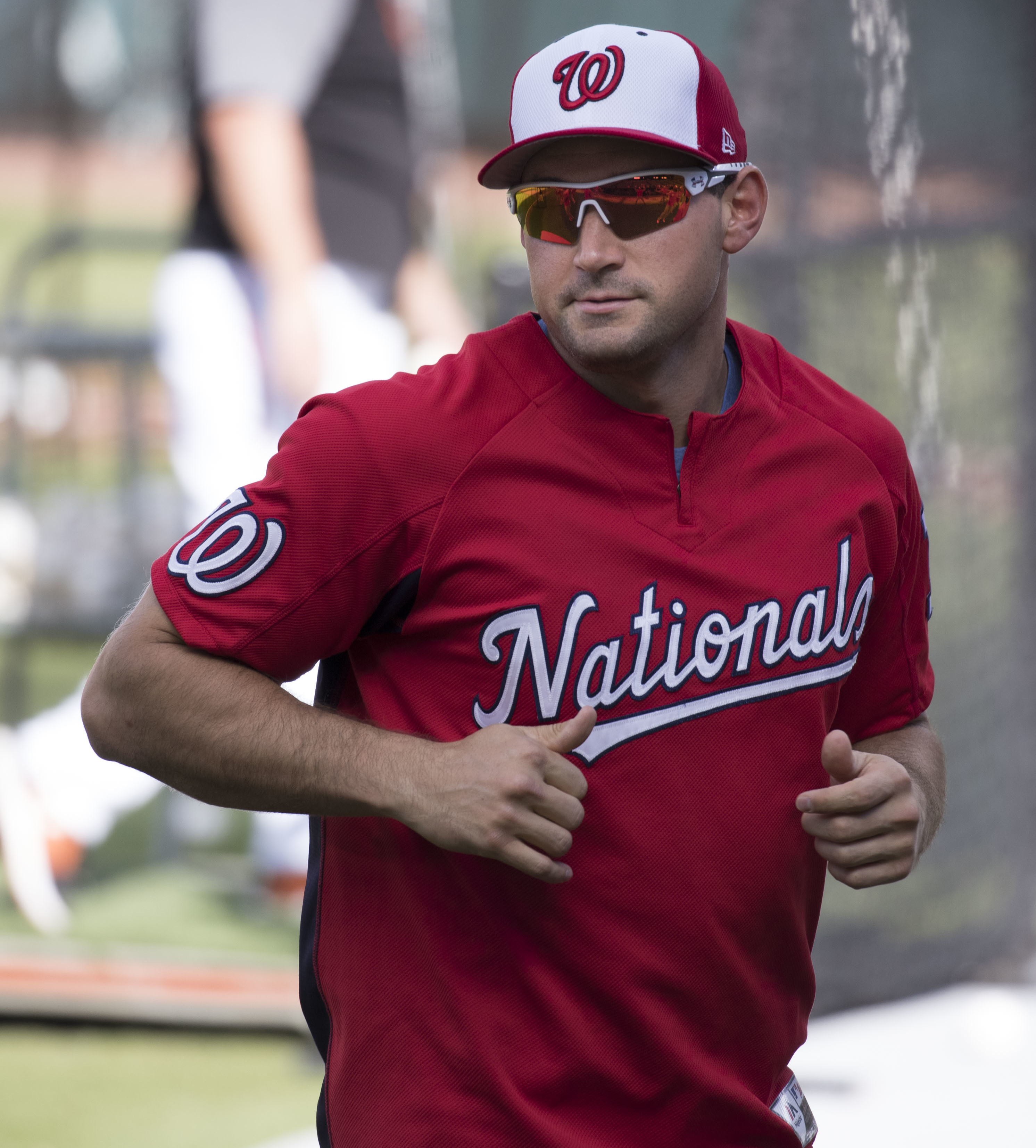 Ryan Zimmerman of the Washington Nationals during batting practice before a game against the Baltimore Orioles at Oriole Park at Camden Yards on May 8, 2017 in Baltimore, Maryland.